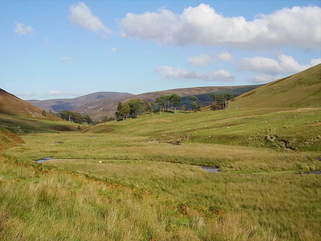 Kingledoors. Looking down Kingledoors Hope. The hills beyond the Tweed include the striking Drumelzier Law.